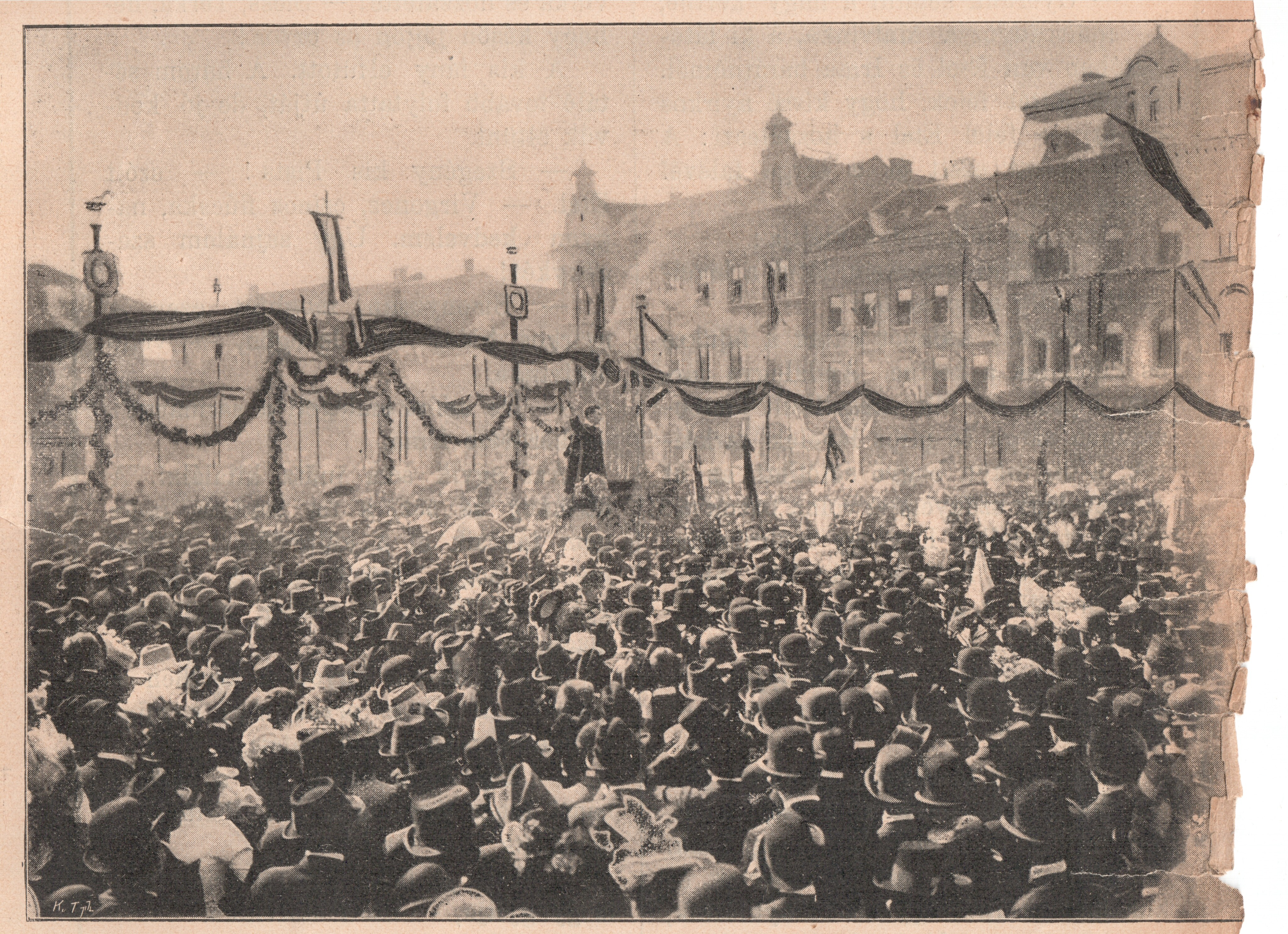 Remembering the Martyrs of Arad in the Arad main square